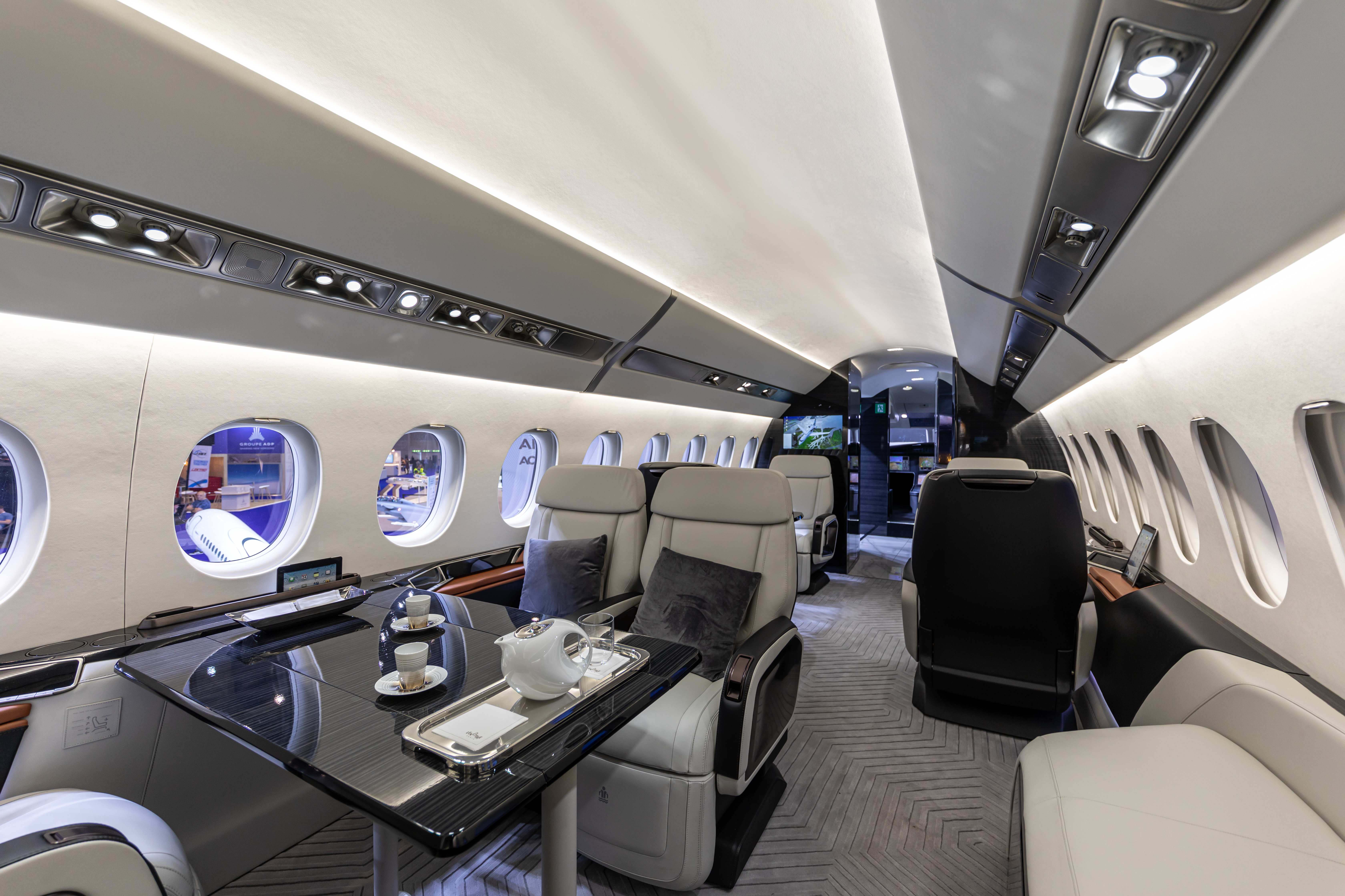 Mock-up interior of a Dassault Falcon 6X at EBACE 2019, Palexpo, Switzerland